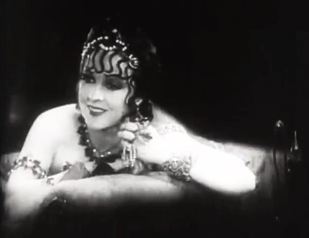 Screenshot of Jacqueline Logan from the trailer for the silent film The King of Kings.